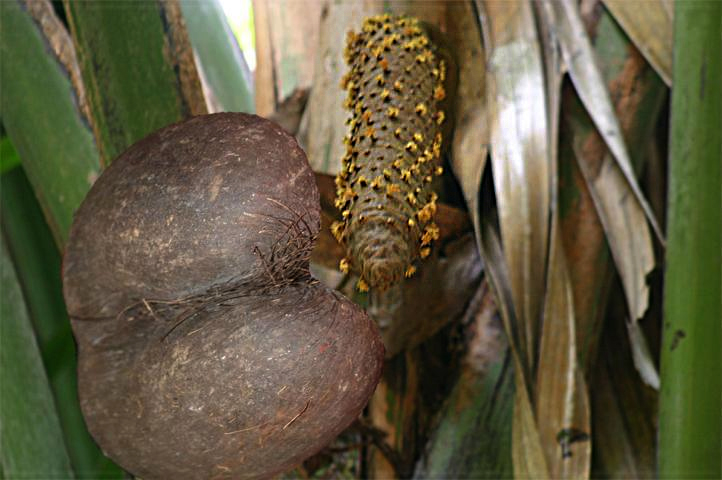 Photo collage showing the female Coco de Mer fruit with no husk as well as the male Coco de Mer catkin. Two of my own images were put together in photo shop to produce this image.